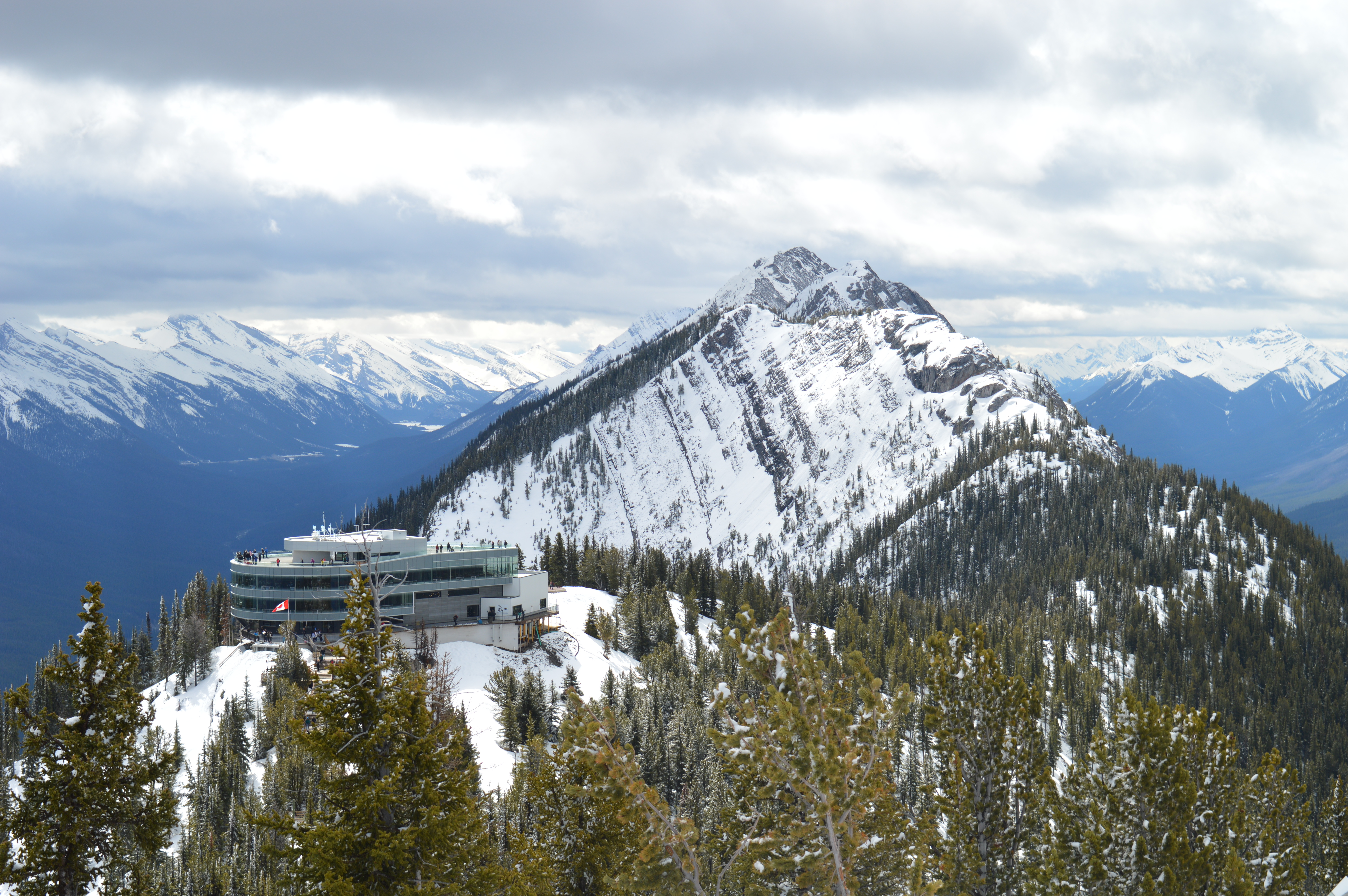 A photo taken at the top of Sulphur Mountain and chalet in Banff National Park, Canada. The photo was taken in May 2017.